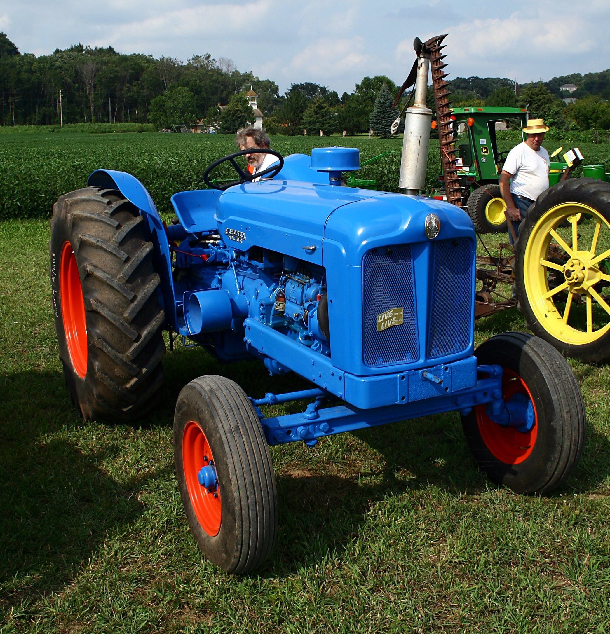 Fordson Major tractor